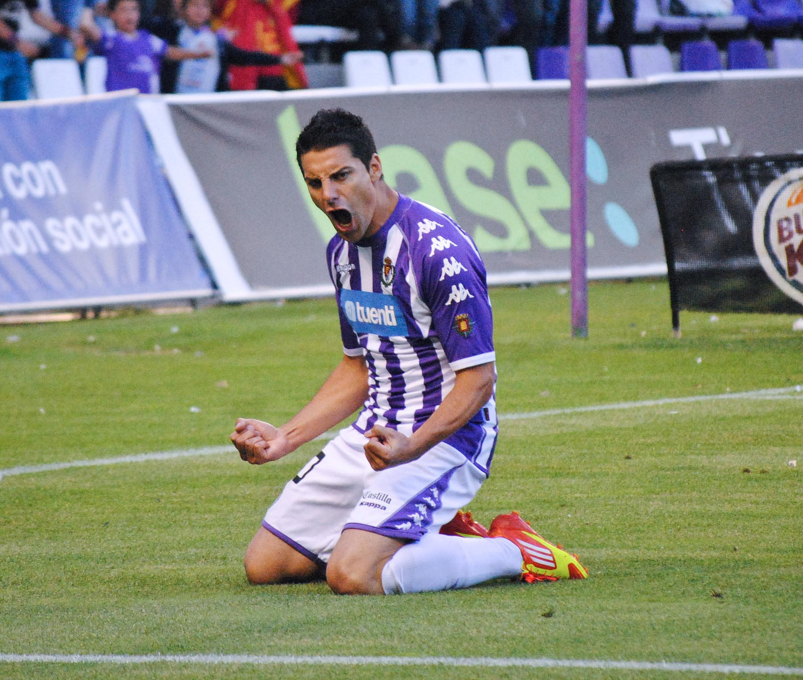 Oscar González playing for Real Valladolid, 2012